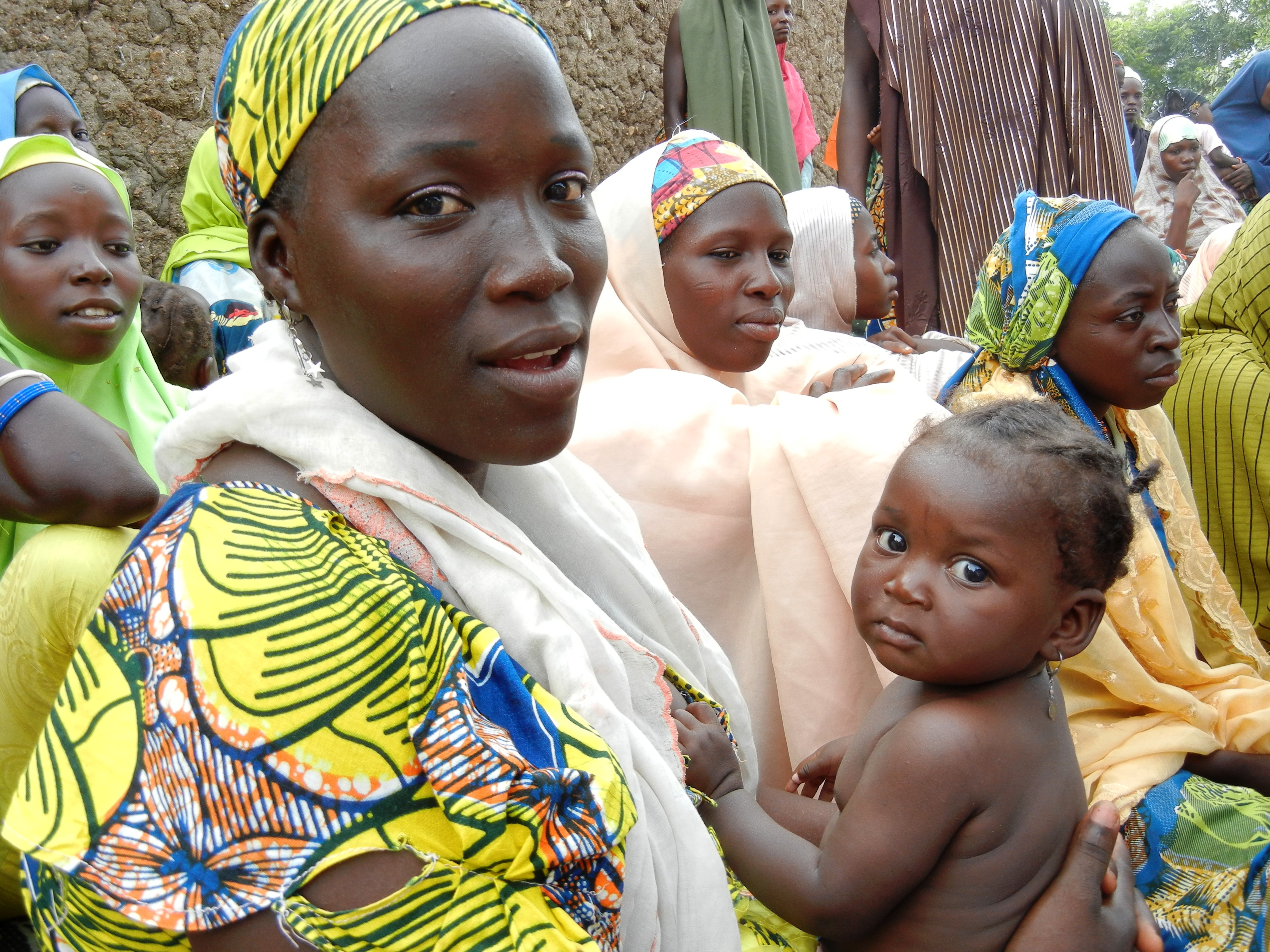 UK aid is working in partnership with the Girl Hub in Northern Nigeria, which provides Young Women Support Groups: This young woman is a peer mentor. She had her first baby at the age of 15 and delivered safely in a health clinic with the care of a trained professional. She now tells other girls about her experience and encourages them to go to local clinics for routine check ups and delivery. She also gives them advice about how to space children using family planning.